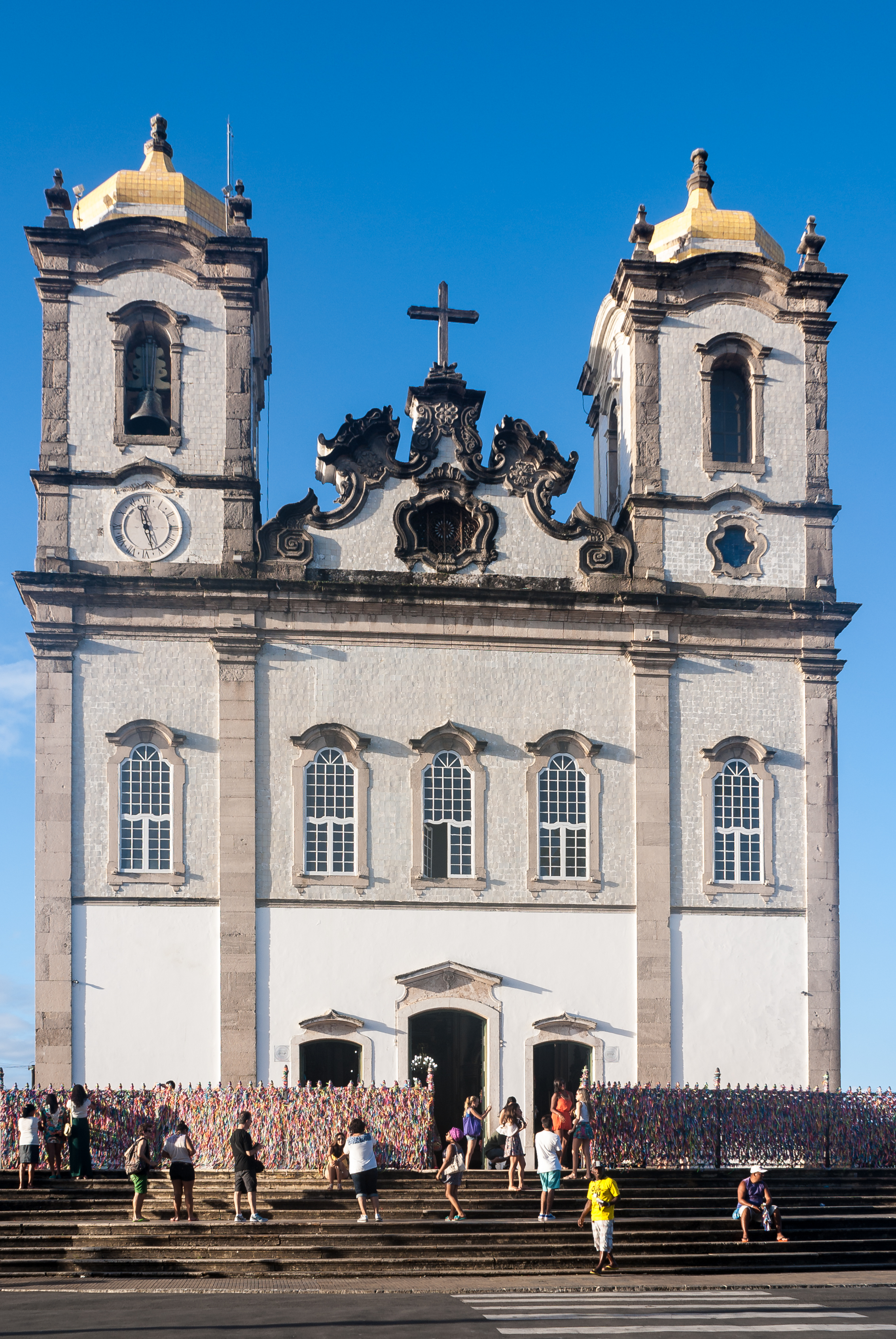 Senhor do Bonfim church, Salvador, Brazil